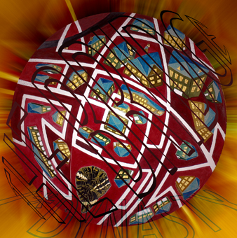 Adeyto I*Dynasty Bridge DVD artwork by Adeyto